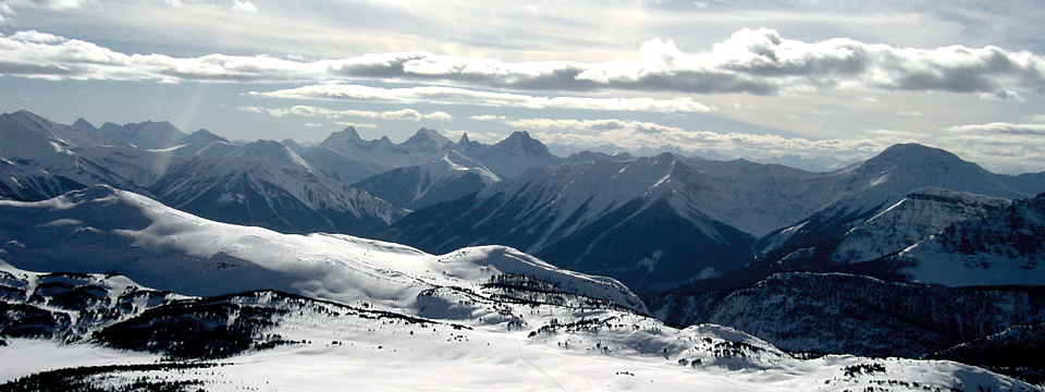 Banff National Park, Alberta, Canada. Image by Alberto Aldana, 2004